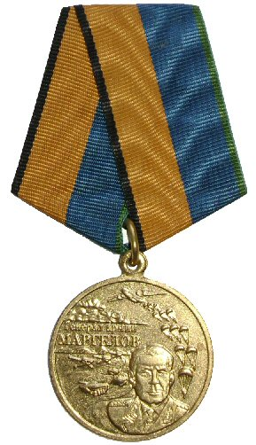 Medal of the Defense Ministry of the Russian Federation. Medal "Army General Margelov". Instituted on 5 May 2005 by ministerial order 182. Awarded to soldiers serving in airborne units for good service of 15 years or more subject to previously being awarded an insignia «For merits», as well as members of the civilian staff for Airborne troops that have served faithfully in Airborne Troops for more than 20 years. May also be awarded to veterans of Airborne troops, in the Airborne reserve or retired and having served 25 years or more, as well as military and civilian personnel of the Armed Forces of the Russian Federation for personal contribution to the strengthening and development of airborne troops.